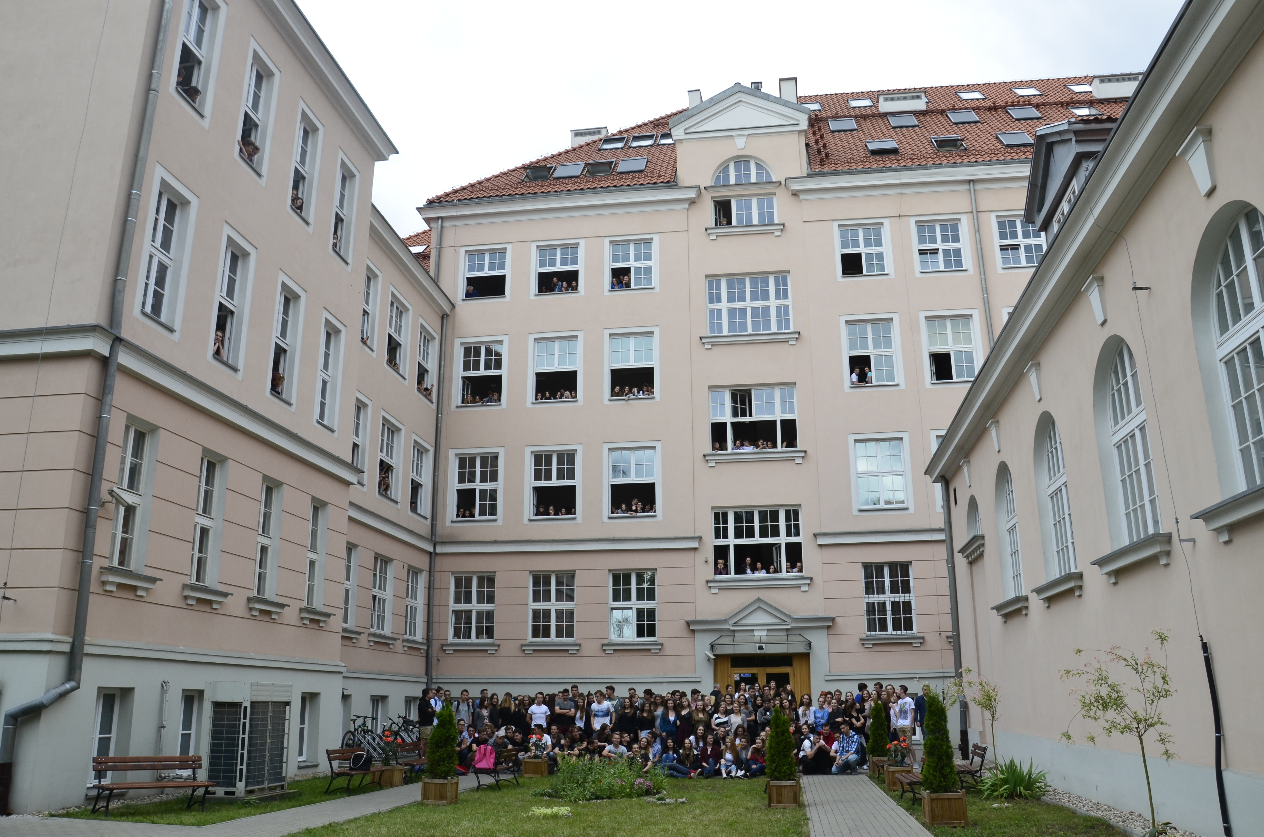 Patio of LXXV LO im. Jana III Sobieskiego in Warsaw